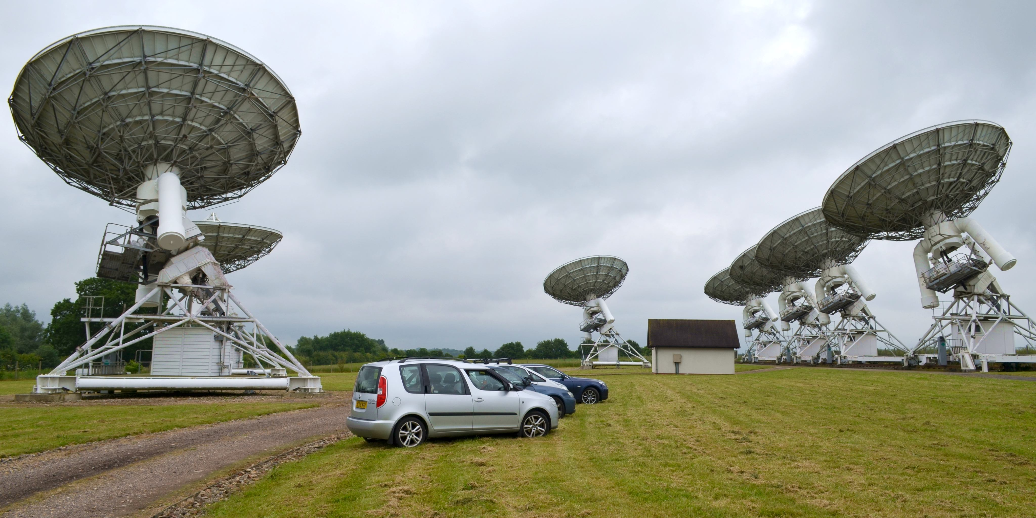 Several antennas of the Arcminute Microkelvin Imager Large Array at the Mullard Radio Astronomy Observatory, Cambridgeshire in June 2014.